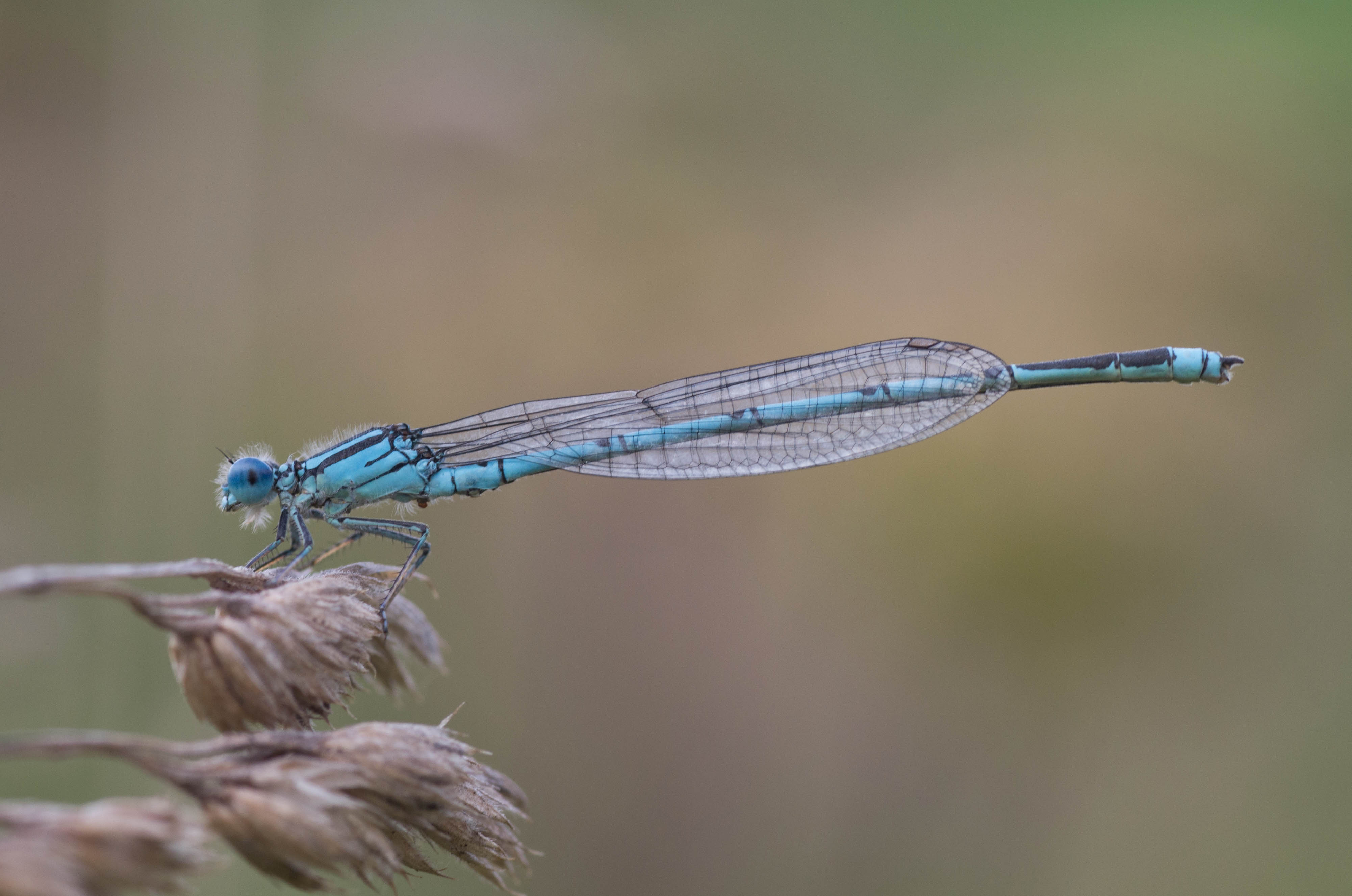 Goblet-marked Damselfly